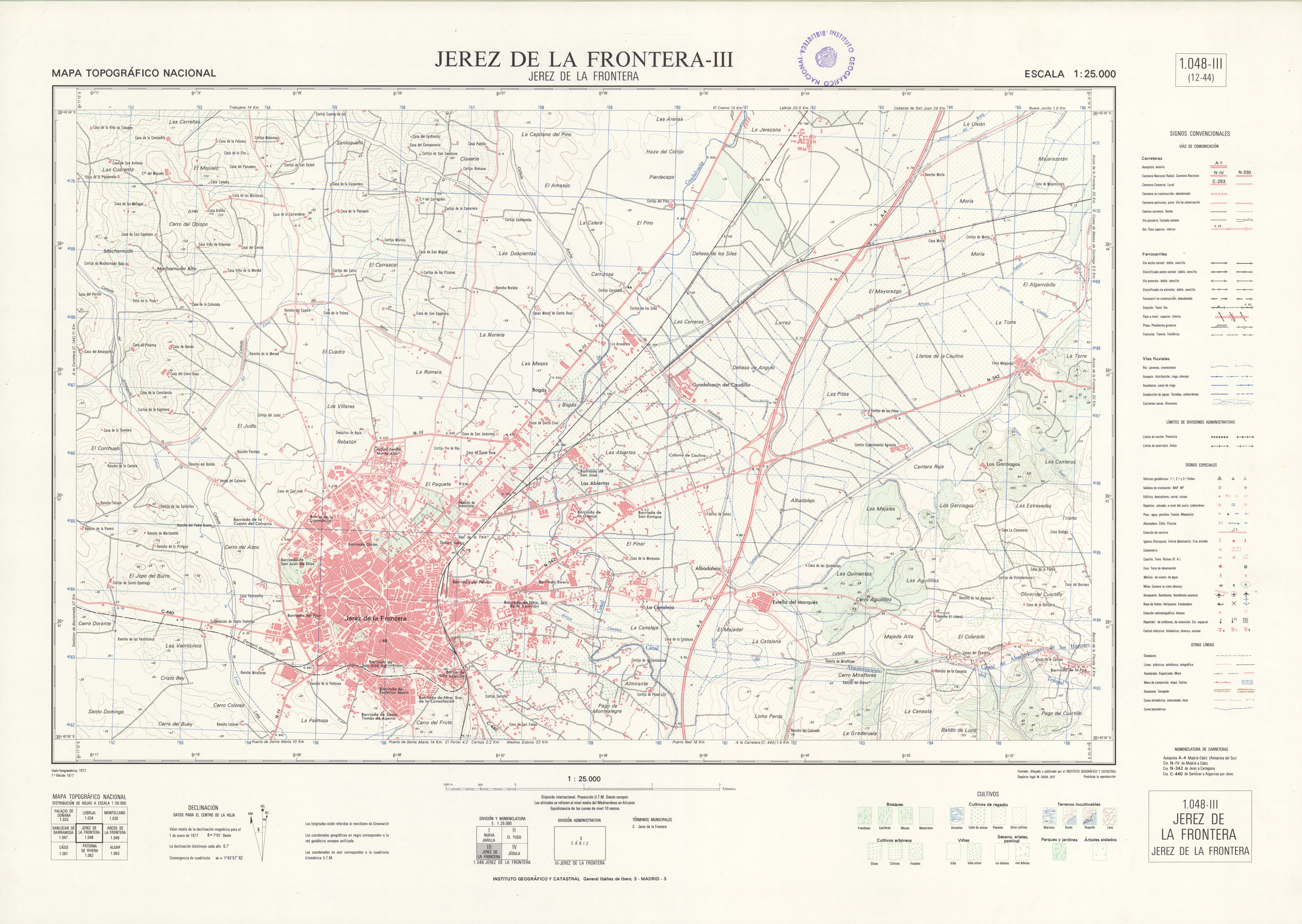 Fragment 1048c3 of the National Topographic Map of Spain in 1977 at a scale of 1:25000 printed and scanned with a resolution of 250 ppi. It shows Jerez de la Frontera-III (Jerez de La Frontera).